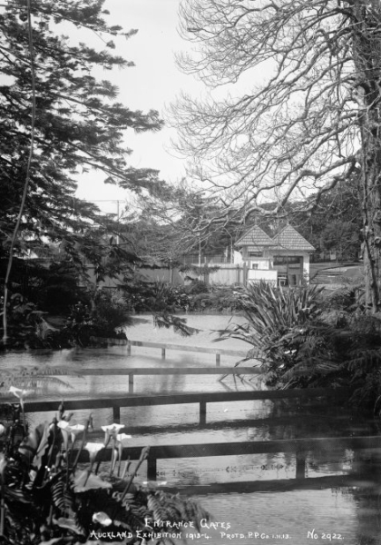 The entrance gates to the Auckland Exibition of 1913 in Auckland City, New Zealand. Extended information on origin webpage reads: Entrance gates to the Auckland Exhibition 1 Nov 1913 / Reference number: 1/2-001262-G 1 b&w original negative(s). Dry plate glass negative 4.5 x 6.5 inches. Vertical image. / Part of Price, William Archer, d 1948 :Collection of post card negatives (PAColl-3057) / Scope and contents: View taken looking across the ornamental pond towards the entrance way to the exhibition area in the Auckland Domain. Arum lilies, flax plants and trees can be seen growing beside the edge of the pond. Photograph taken by William Archer Price (Price Photographic Company), 1 Nov 1913